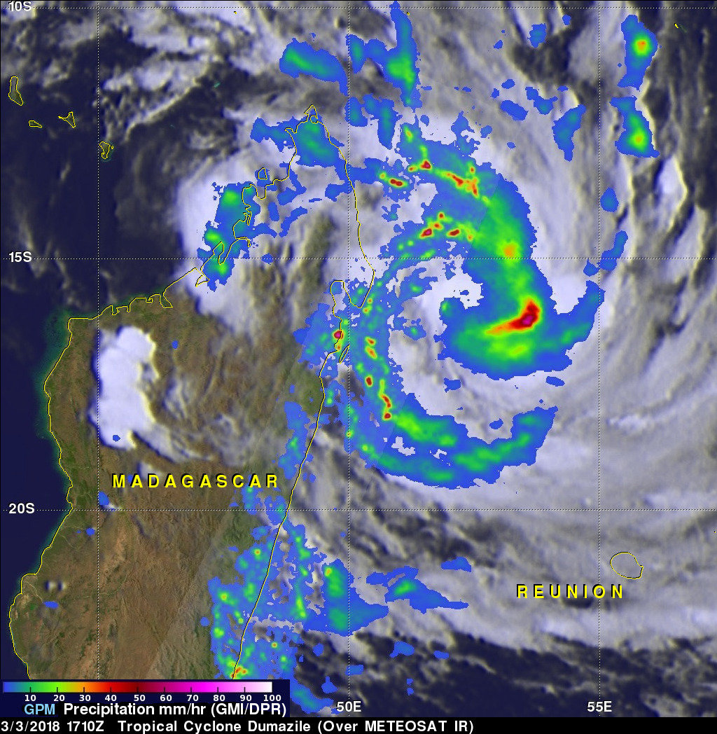 On March 3, 2018 at 12:10 a.m. EST (1710 UTC) the GPM satellite measured rain hitting Madagascar's eastern coast at a rate of over 160 mm (6.3 inches) per hour. Even heavier precipitation along the coast was falling at a rate of over 216 mm (8.5 inches) per hour. Storms where the heaviest rainfall was occurring were above 13.7 km (8.5 miles) high.